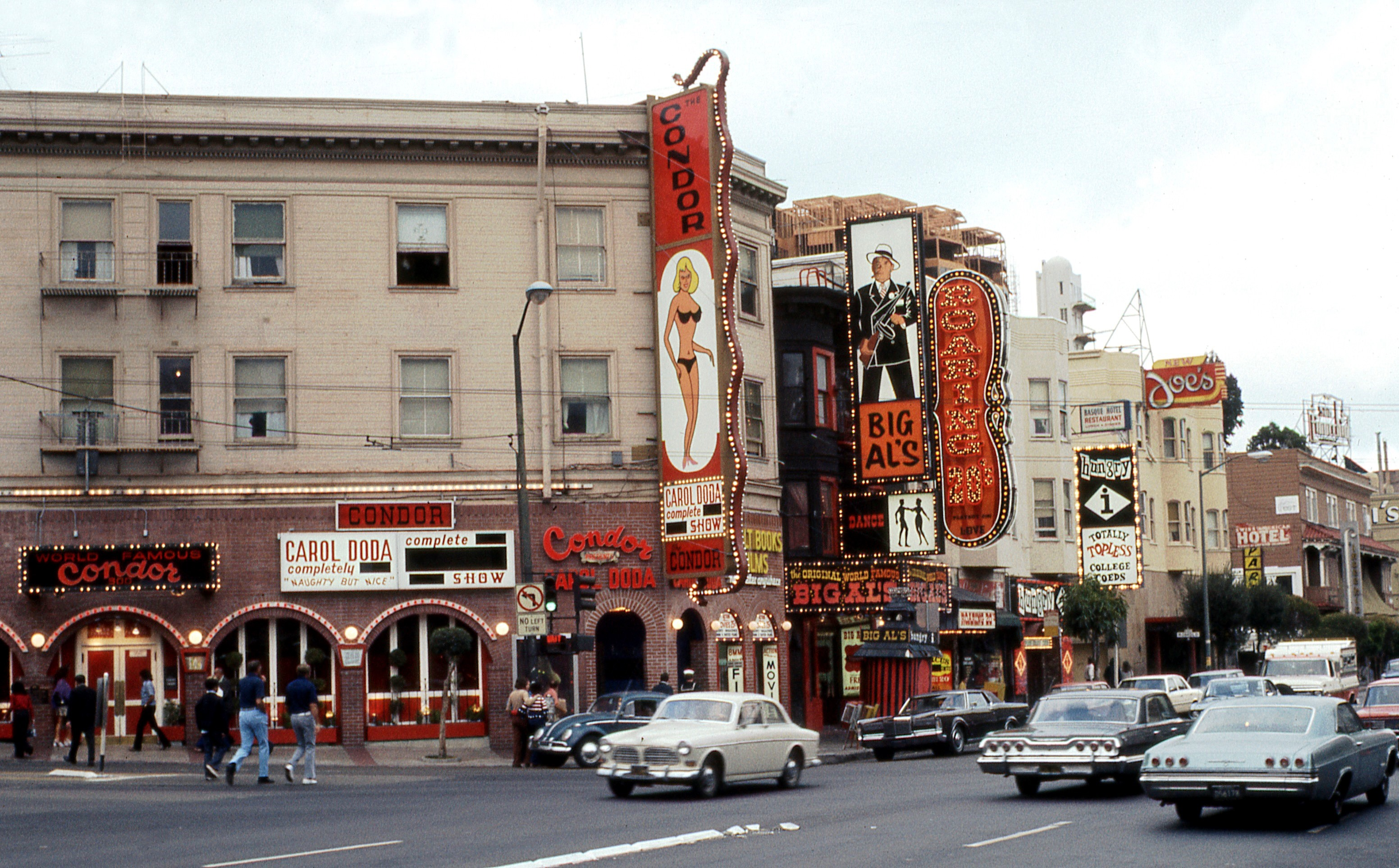 North Beach, San Francisco, California, North East corner of Broadway and Columbus (1973). Carol Doda's Condor Club, Big Al's, Roaring 20s and Hungry I strip clubs. Dianne Feinstein was on the Board of Supervisors when San Francisco began enforcing a sign ordinance in early 1973 banning words such as "nude", "bottomless" and "stark naked". The Condor sign said "Carol Doda Complete Nude Sex Show". The offending words were covered when this picture was taken in June 1973; the signs were modified by September as shown in this picture. File:Carol Doda Condor Club 1973.jpg From a 35 mm Ektachrome transparency taken with a Yashica TL Electro SLR camera. Scanned with an Epson Perfection V500 Photo.